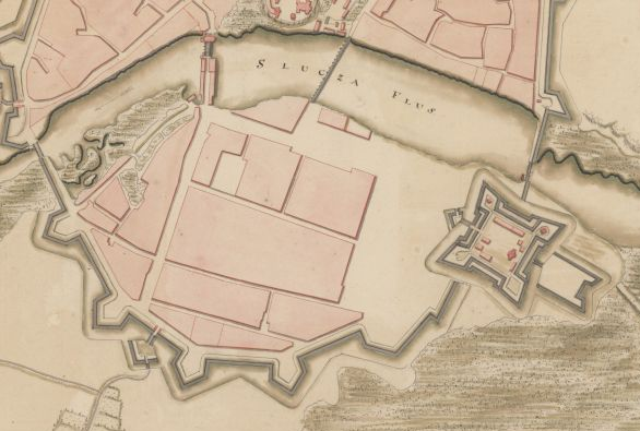 Fortifikation of Sluck, Belarus